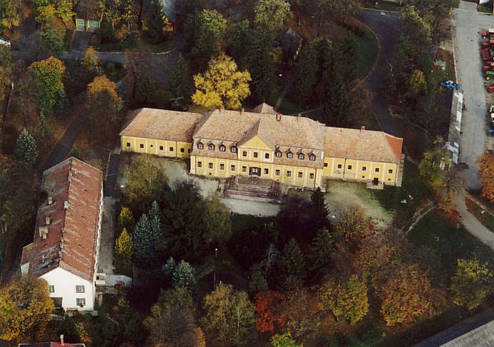 Palace - Ádánd - Hungary - Europe (Csapody Mansion)